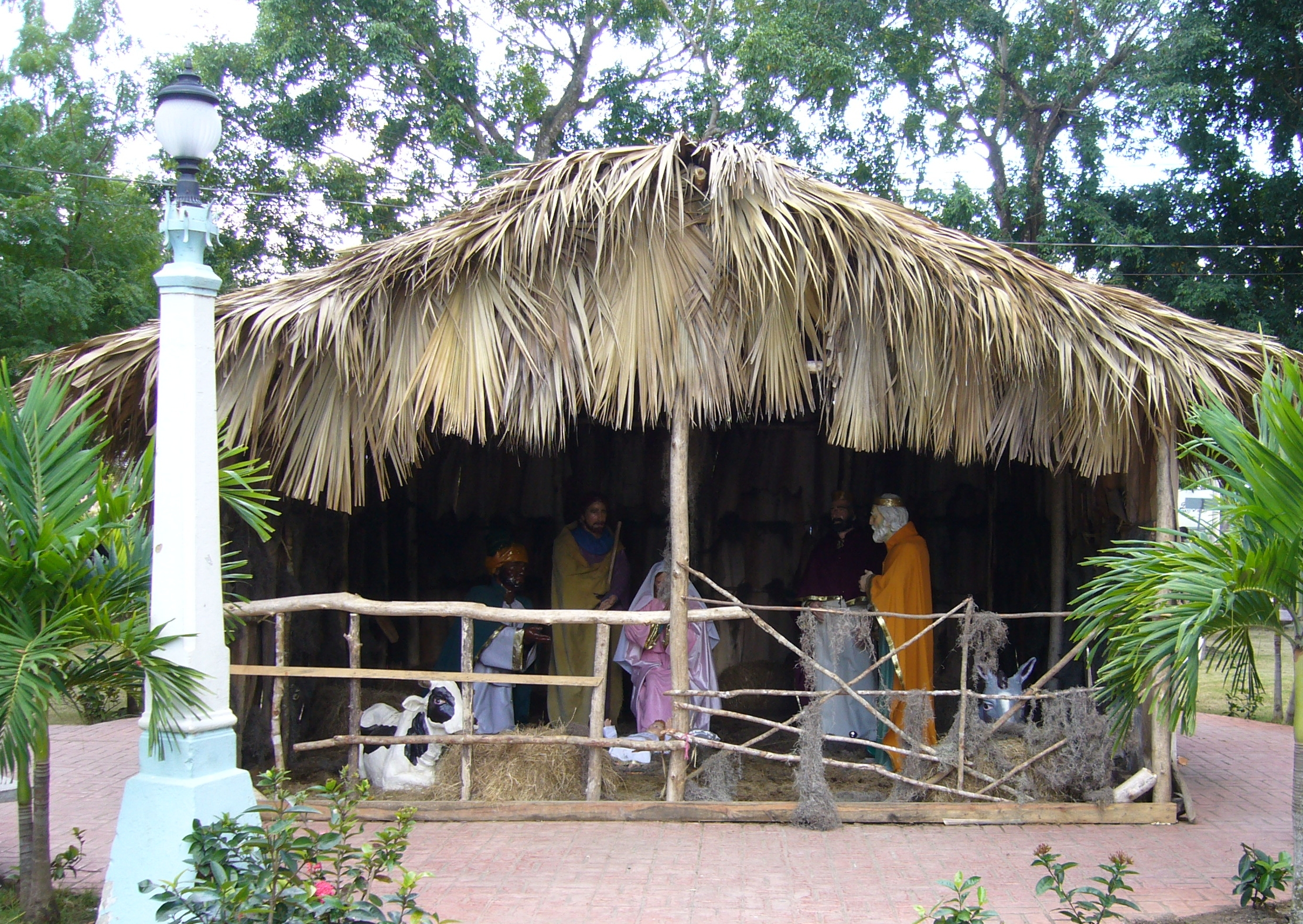 crip in Boca Chica